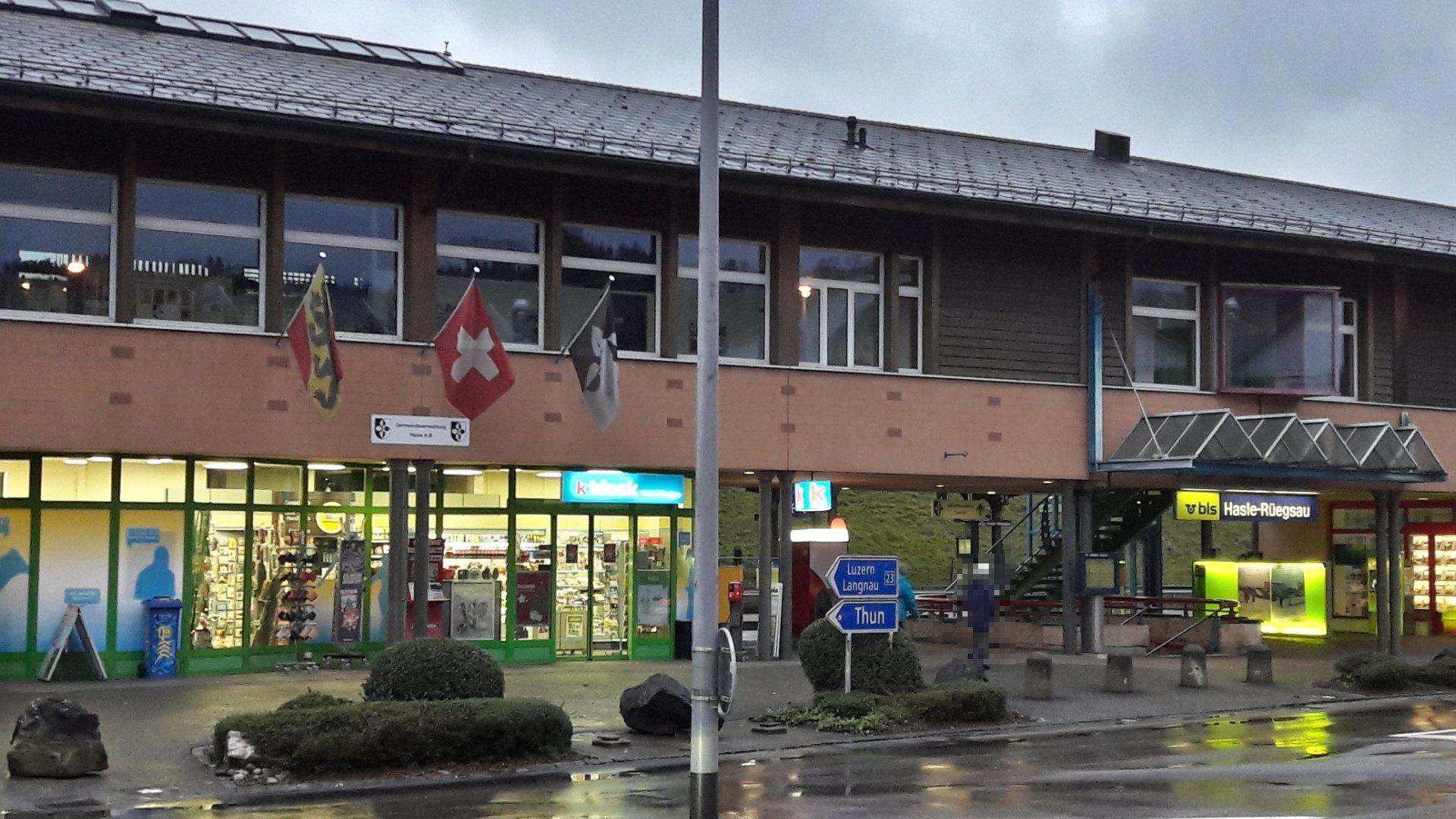 Hasle-Rüegsau railway station in Hasle bei Burgdorf, Switzerland.